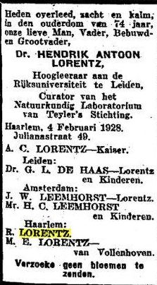 Obituary notice H.A Lorentz